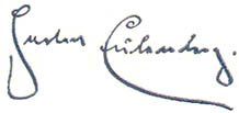 Signature Herbert Eulenberg